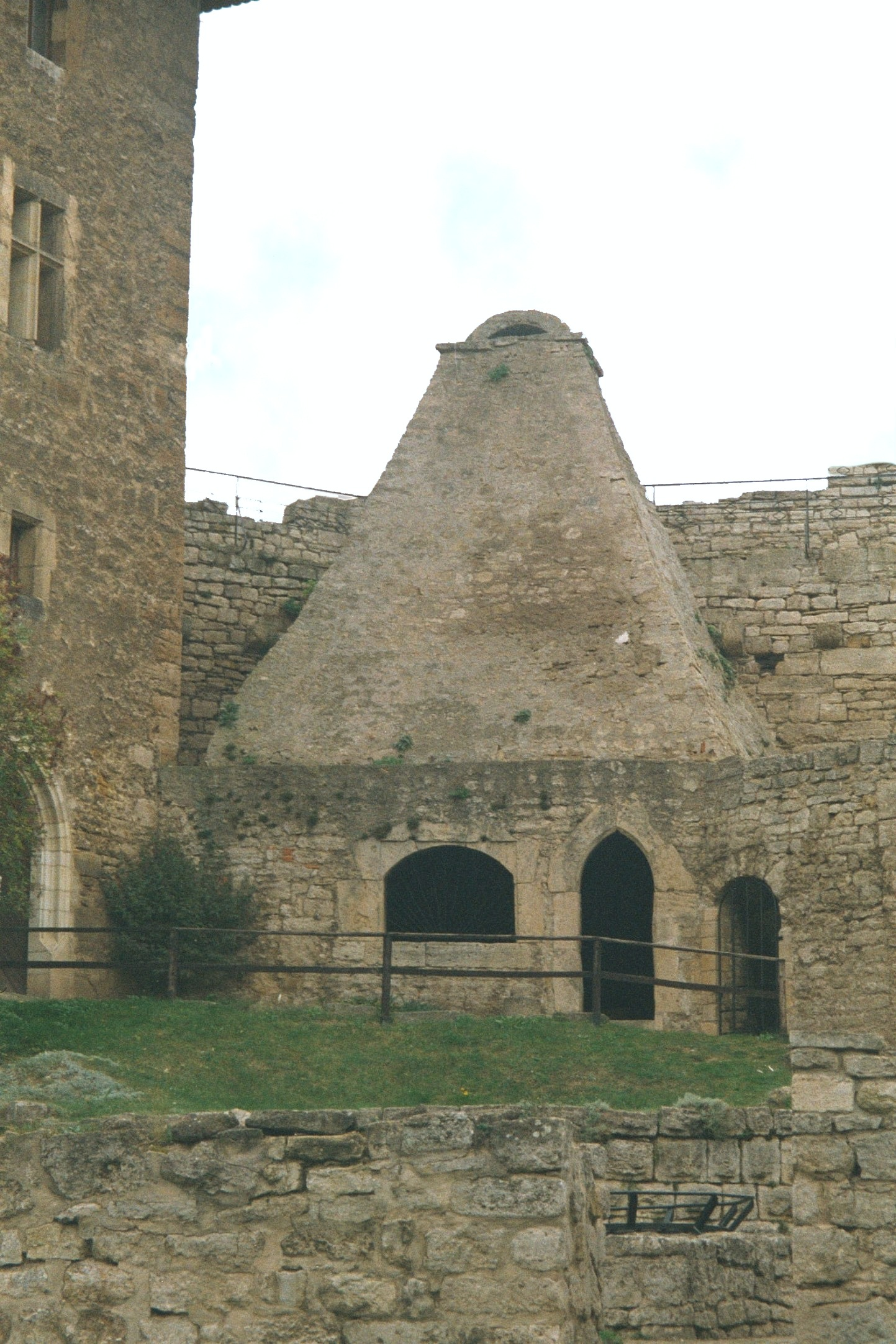 Kapellendorf, the kitchen of the moated castle